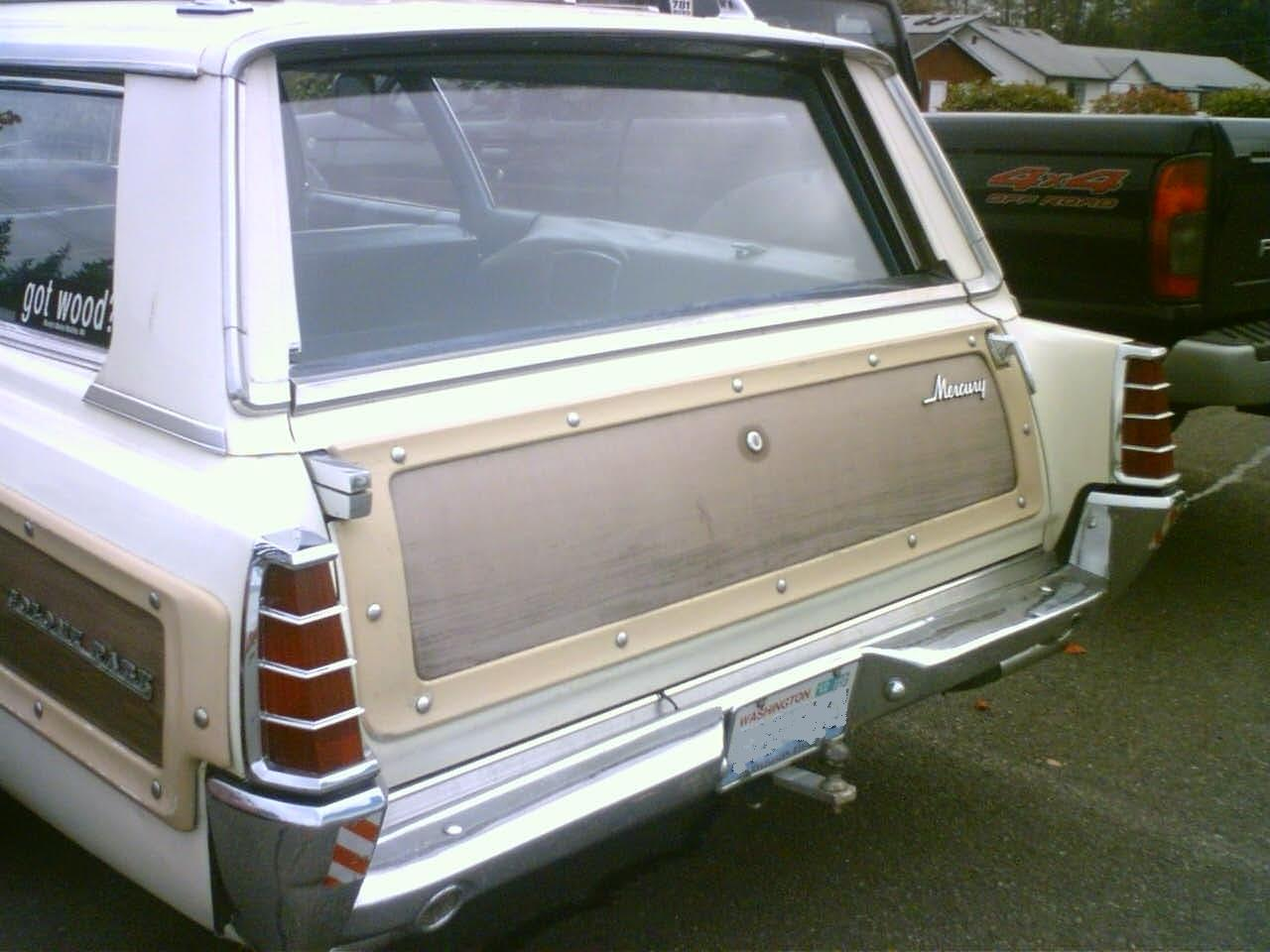 1966 Mercury Colony Park station wagon tailgate